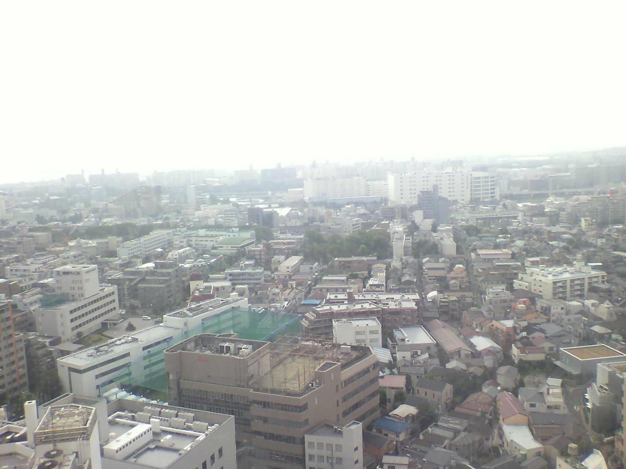 This is a landscape of Higashiiōi, Shinagawa, Tokyo, Japan.